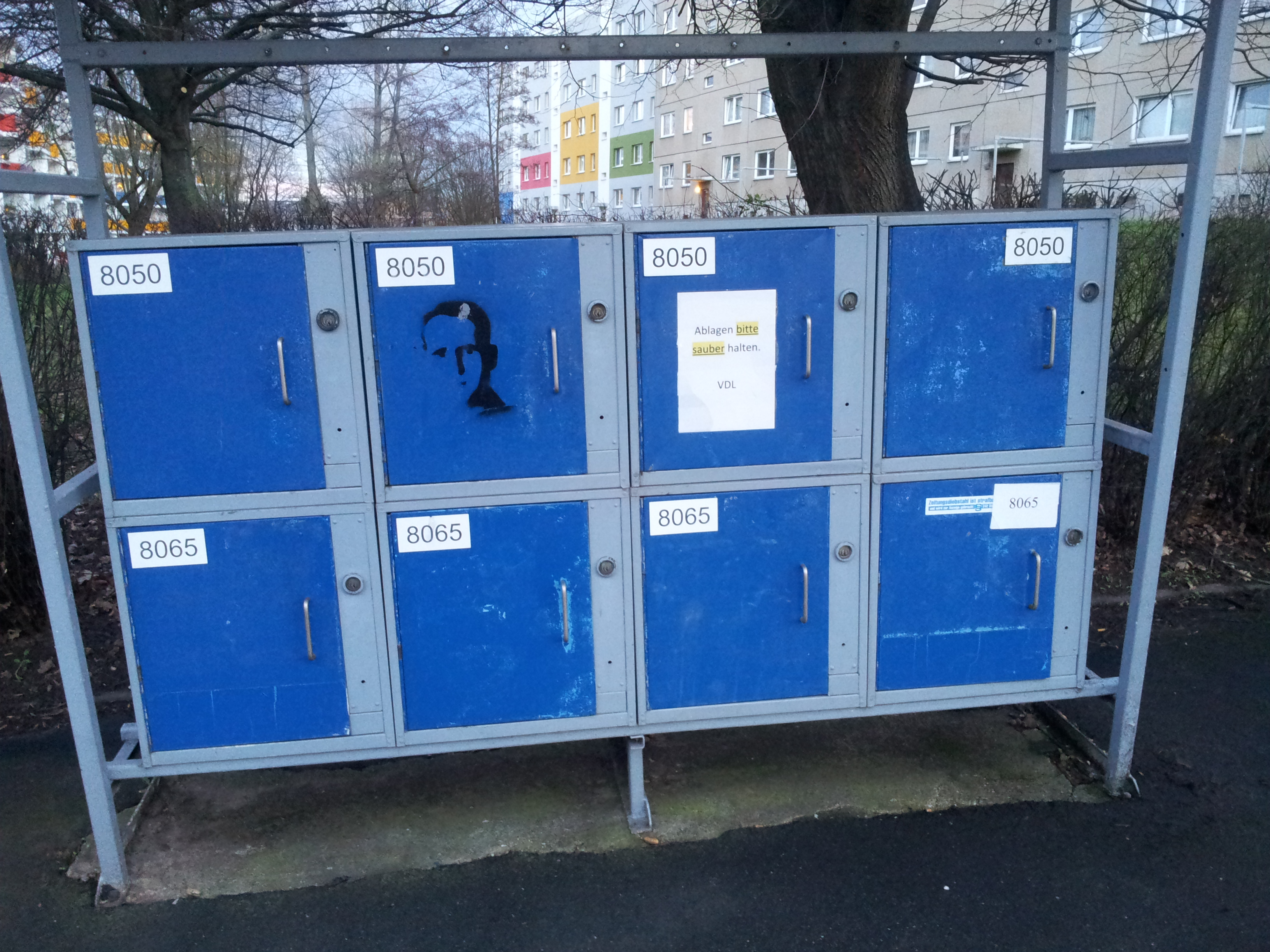 Parcel delivery station in the former GDR. It was used by the postal service "Deutsche Post" and has been changed regarding the numbering, the colour since.